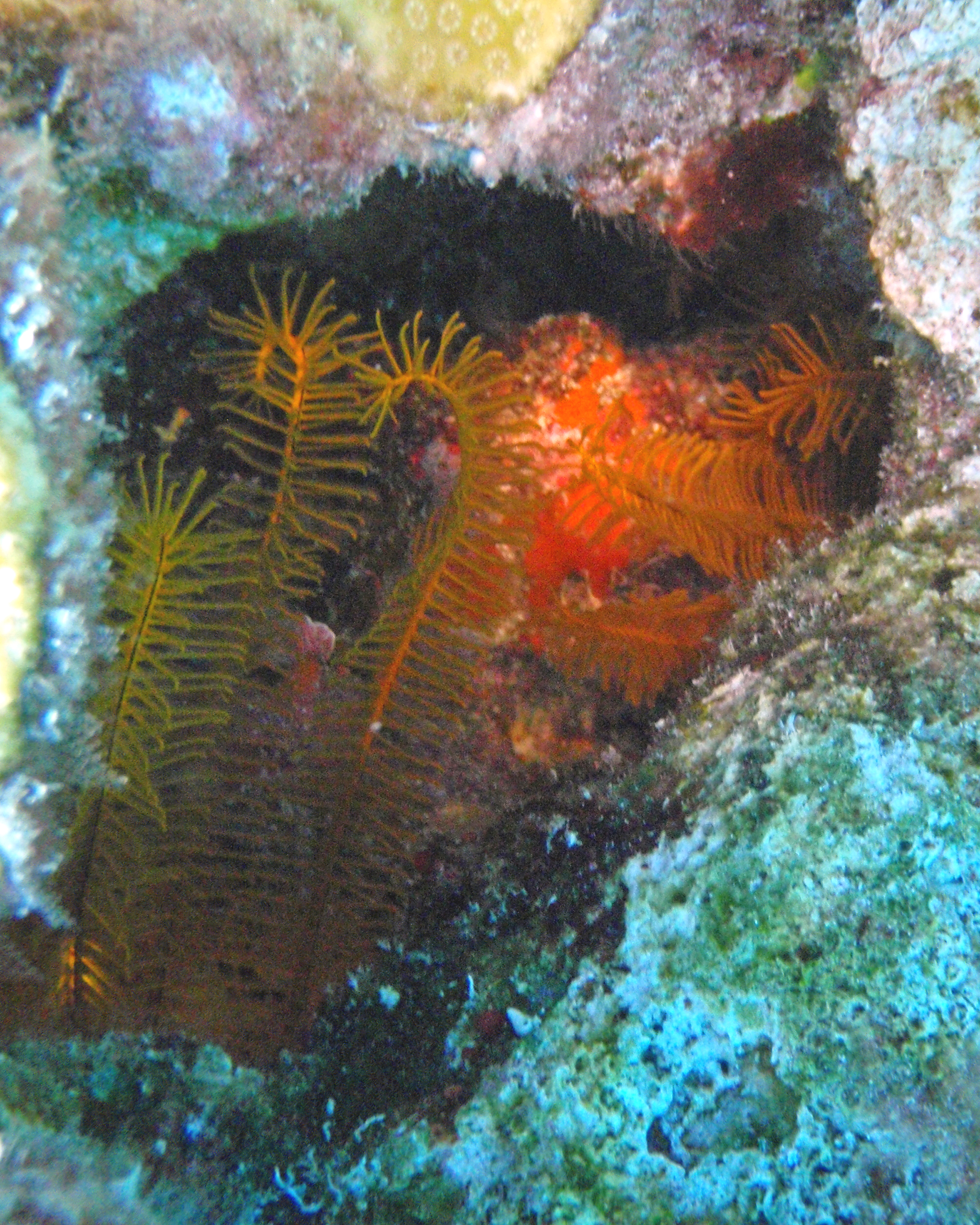 Davidaster rubiginosus (golden crinoid) (San Salvador Island, Bahamas)